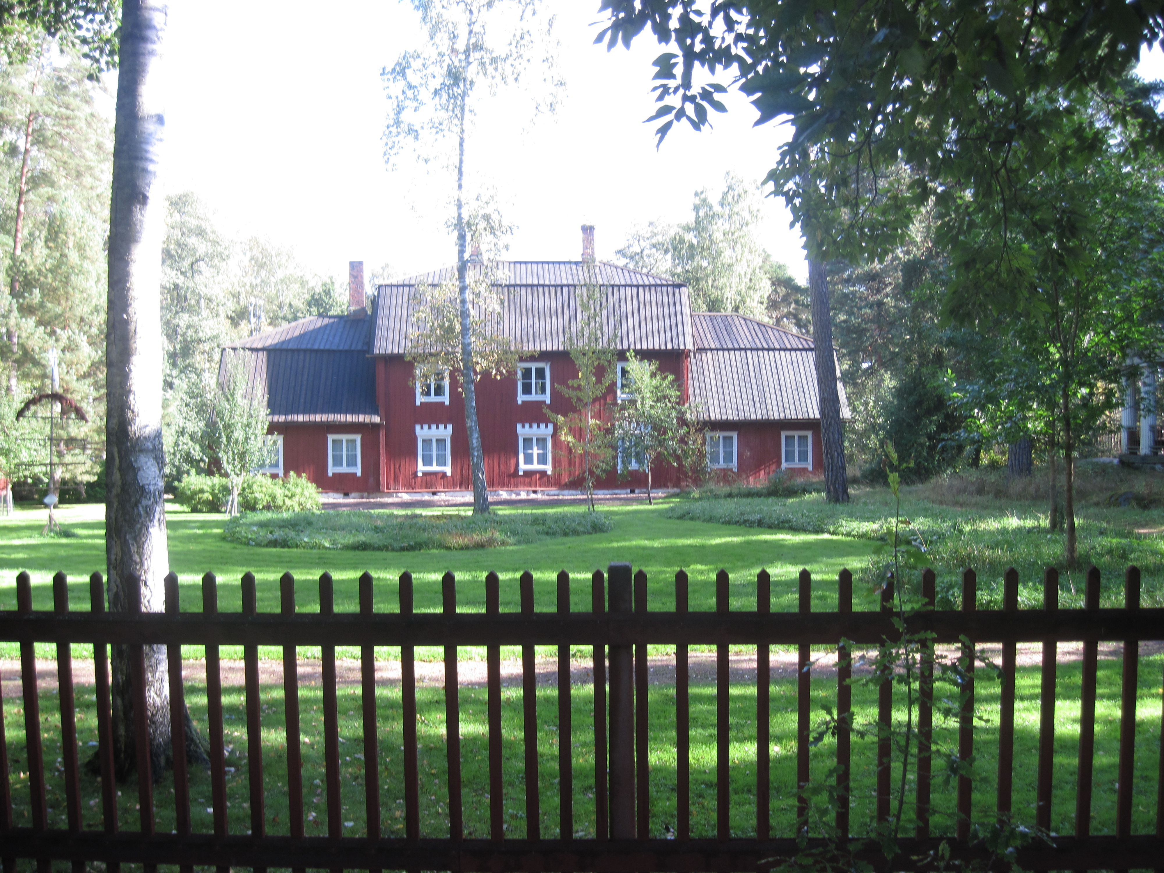 Court of Kahiluoto Manor in Seurasaari Open Air Museum, Helsinki